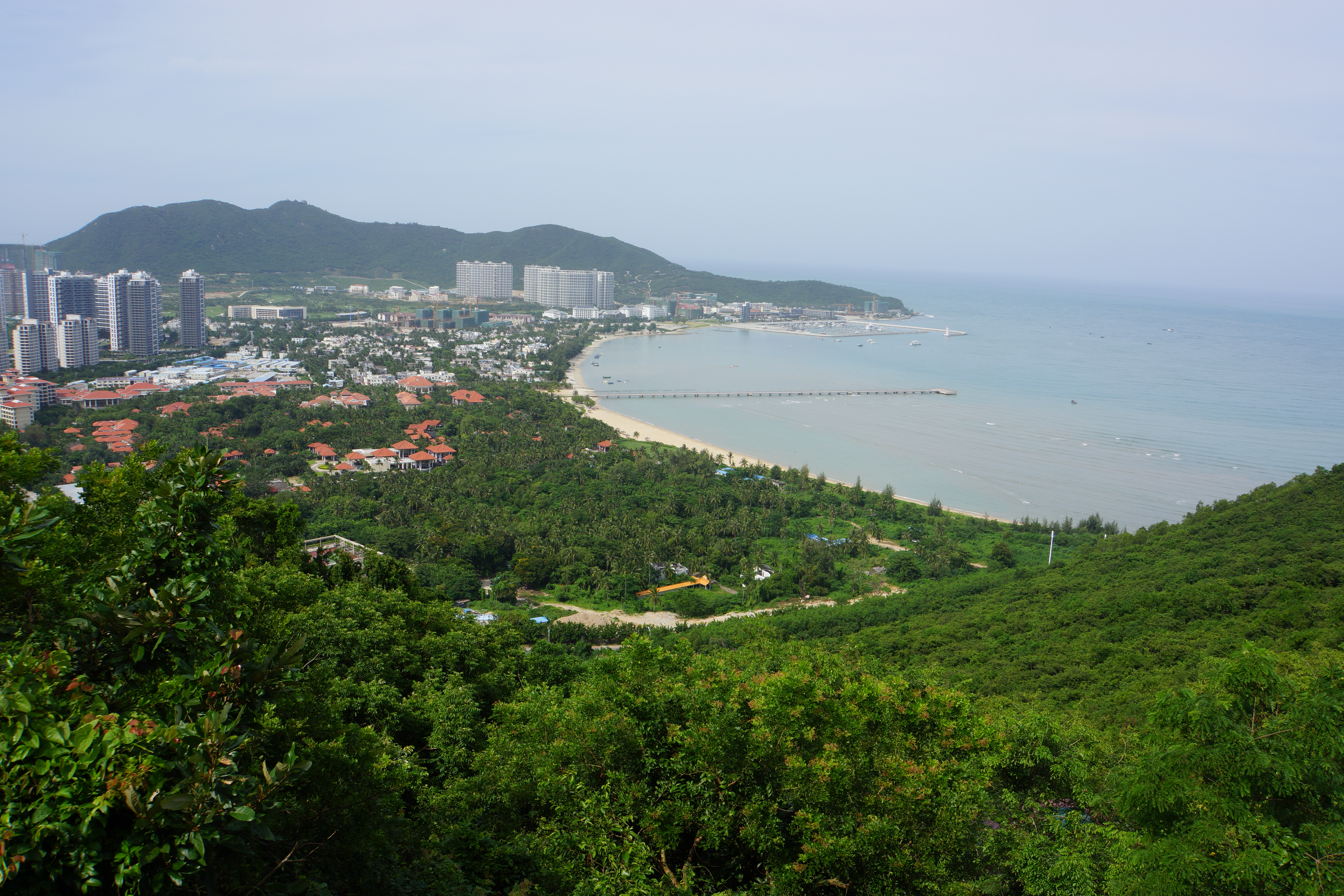 Sanya Bay. This is a view from atop Luhuitou Park. The camera is facing south, showing the southeastern part of Sanya Bay. The peninsula tip at the end of the beach has two peaks, Shuiwei Mountain and Luhuitou Mountain.